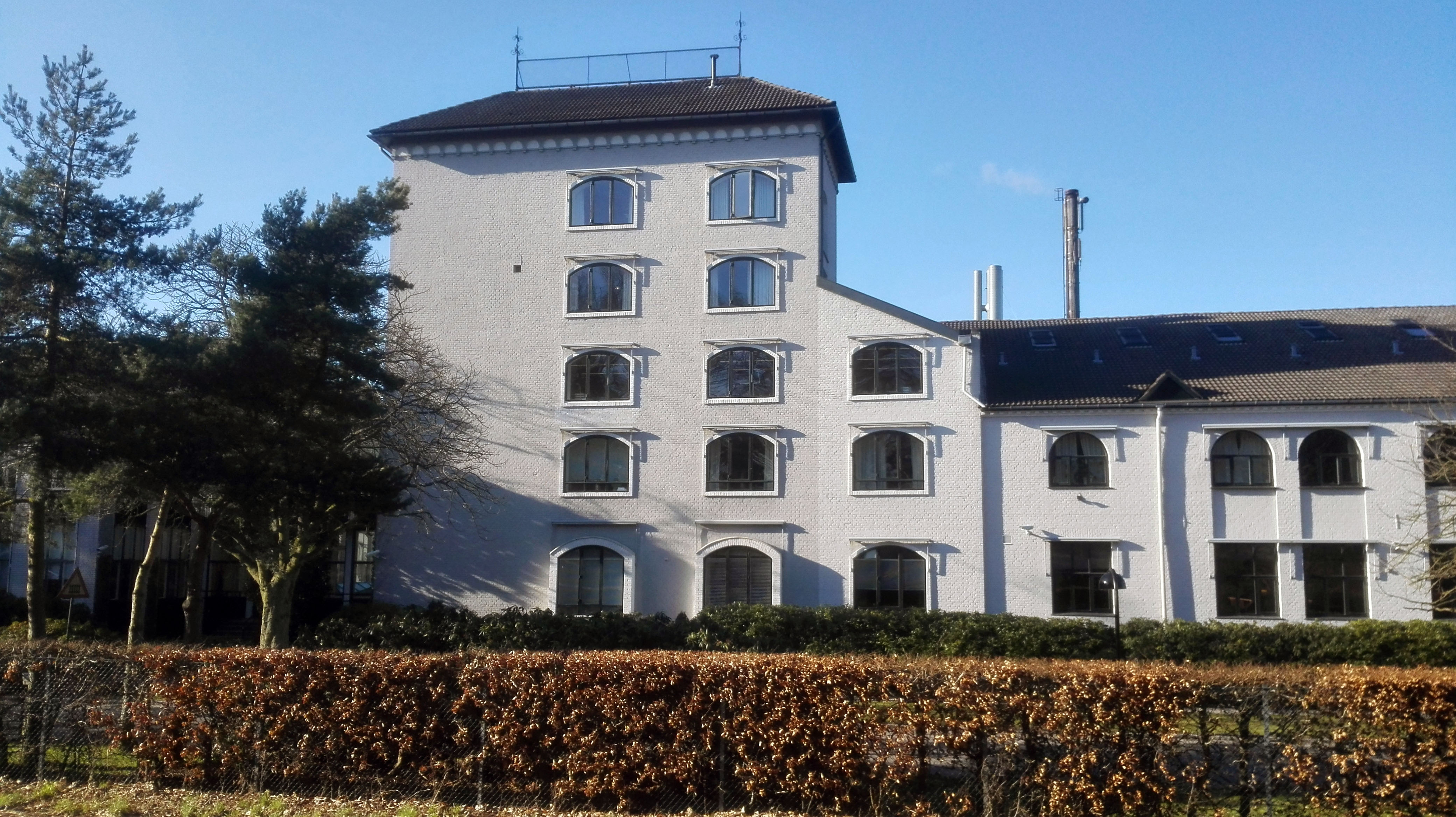 Main building of Haldor Topsøe in Kongens Lyngby